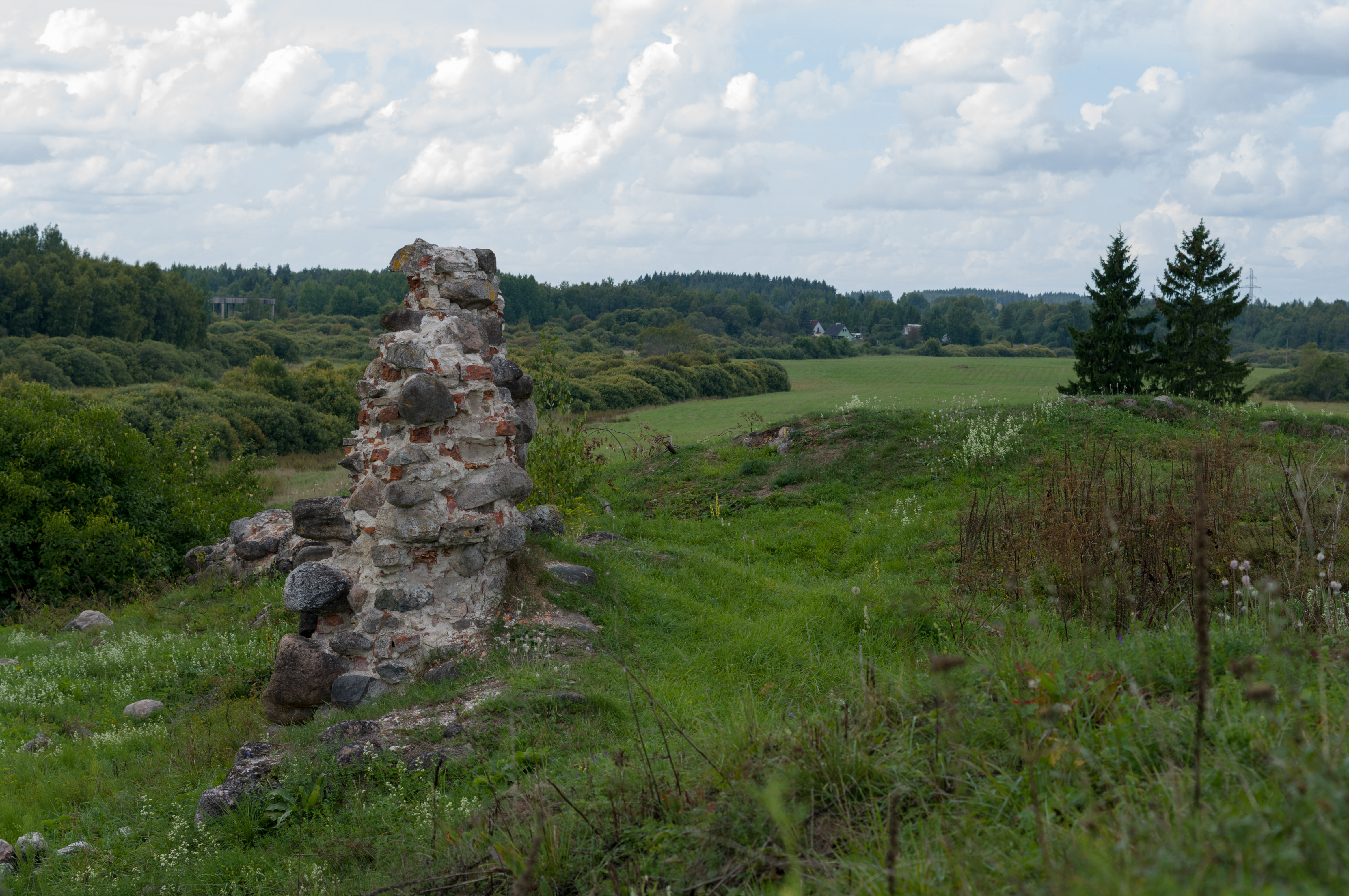 This photo was taken during a Wikiexpedition set up by Wikimedia Eesti.You can see all photographs in category WMEE-LV2013.